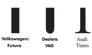 Principle of VAG Rounded